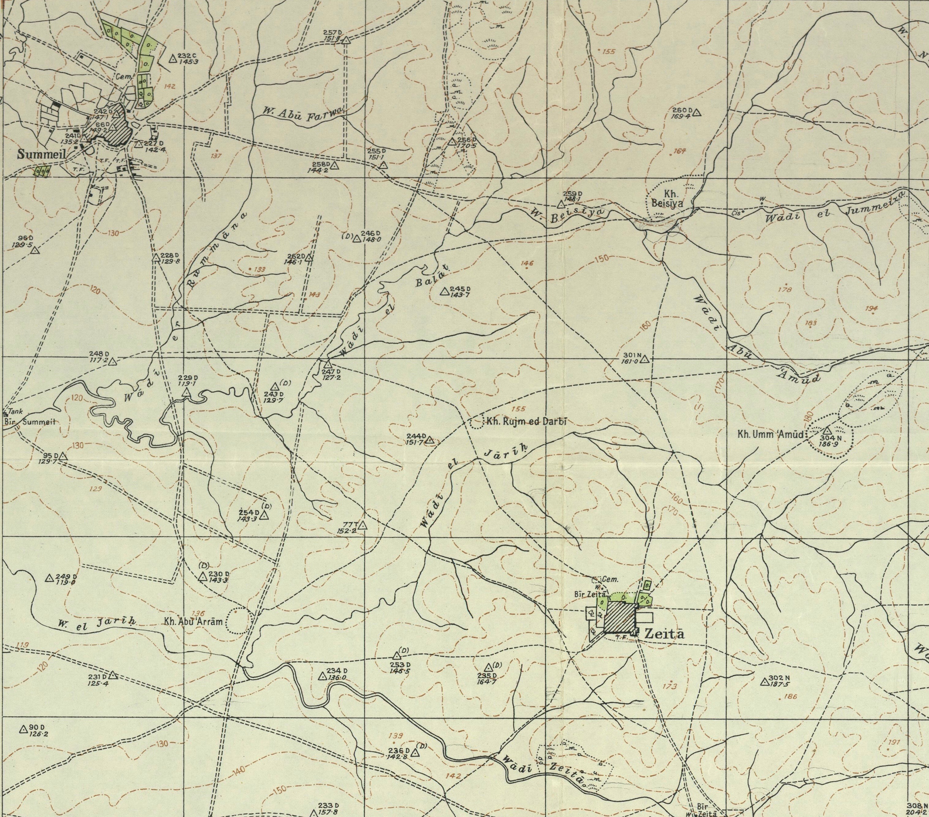 Zeta 1948 1:20,000